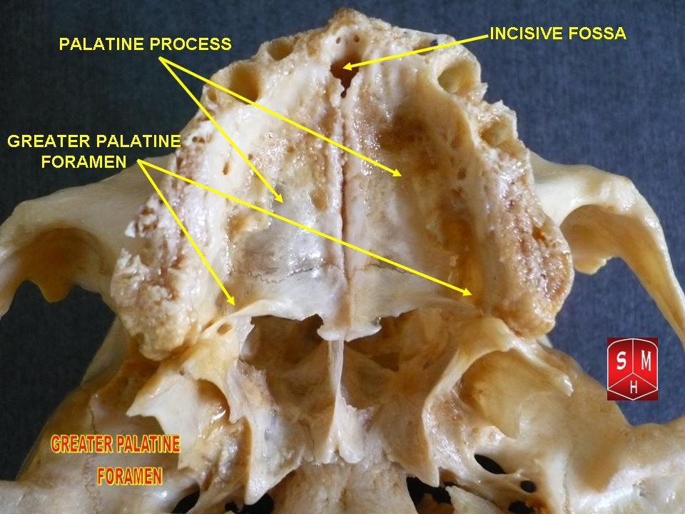 Anatomical preparation